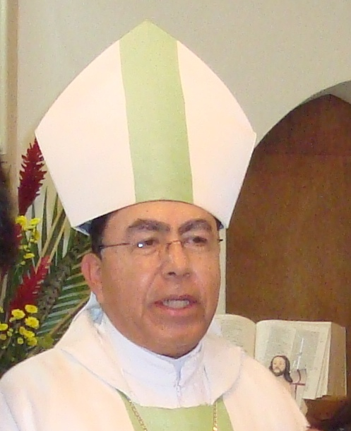 Photo of the Colombian Bishop